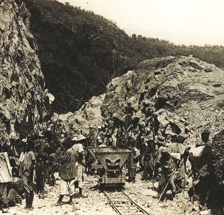 (Post Card image from academic archive, Taken by French Government, c.1904, more than 100 years old Cropped and color corrected by User: T L Miles, 2007-06-05)